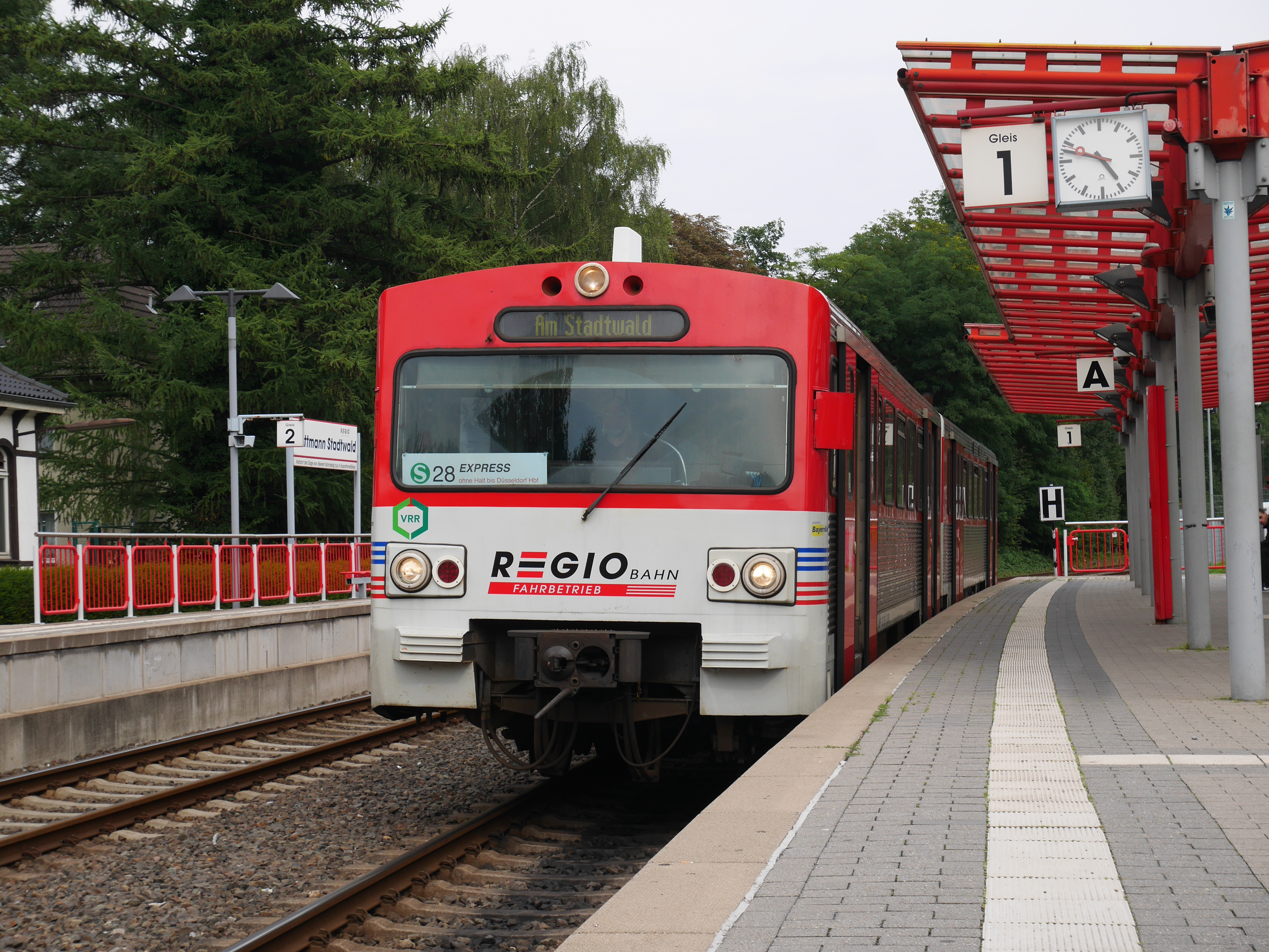 The ex-AKN LHB VTE 2.39 diesel multiple unit, now owned by BayernBahn stands at Mettmann Stadtwald station as an express service on S-Bahn route S28 to Düsseldorf Hbf, operated by Regiobahn.